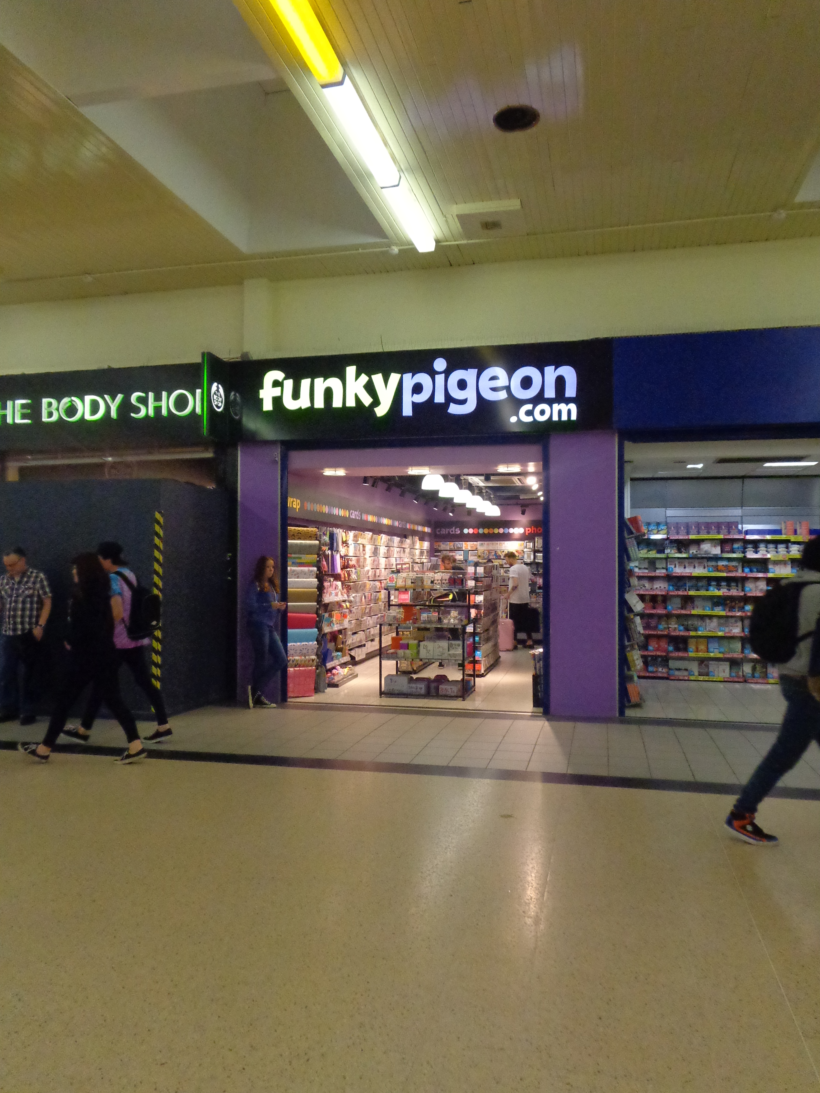 Funky shop, Leeds railway station. Taken on the afternoon of Saturday the 19th of July 2014.